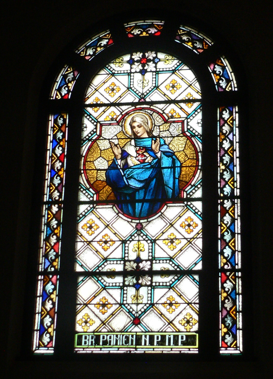 Westernmost (closest to altar end of churche) of six windows on north wall of Immaculate Conception Church, located at 2708 S. 24th Street in Omaha, Nebraska.